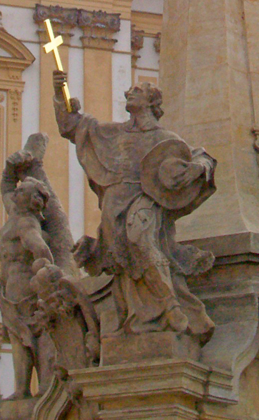 Šternberk: Marian Column - St. Charles Borromeo